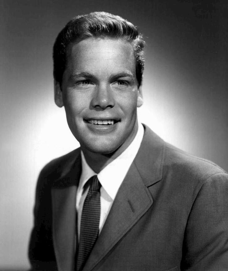 Publicity photo of actor Doug McClure.